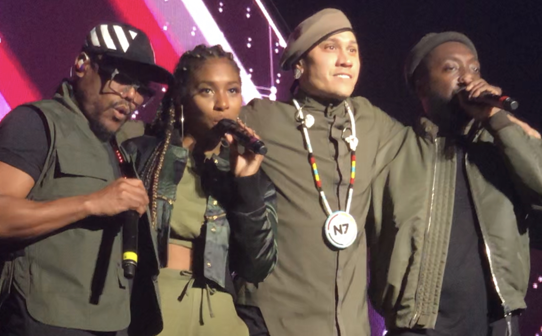 Black Eyed Peas, performing with new member Jessica Reynoso at O2 Apollo, Manchester.